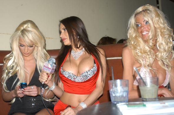 Amy Anderssen, Sheila Marie, Jordan Blue at Forbidden City party on March 31, 2007